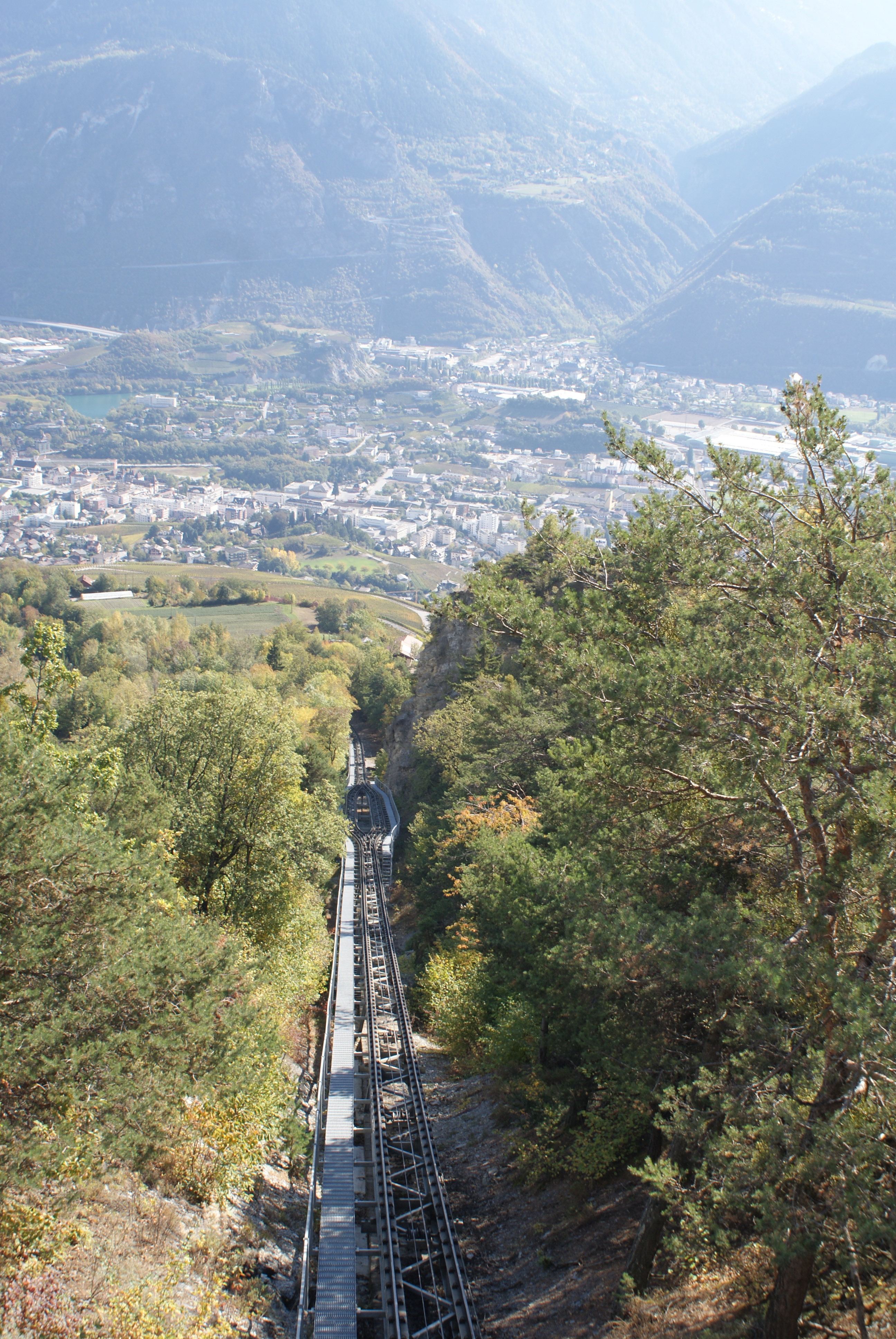 Passing track of the Sierre Montana Crans (SMC) funicular, Canton of Valais, Switzerland